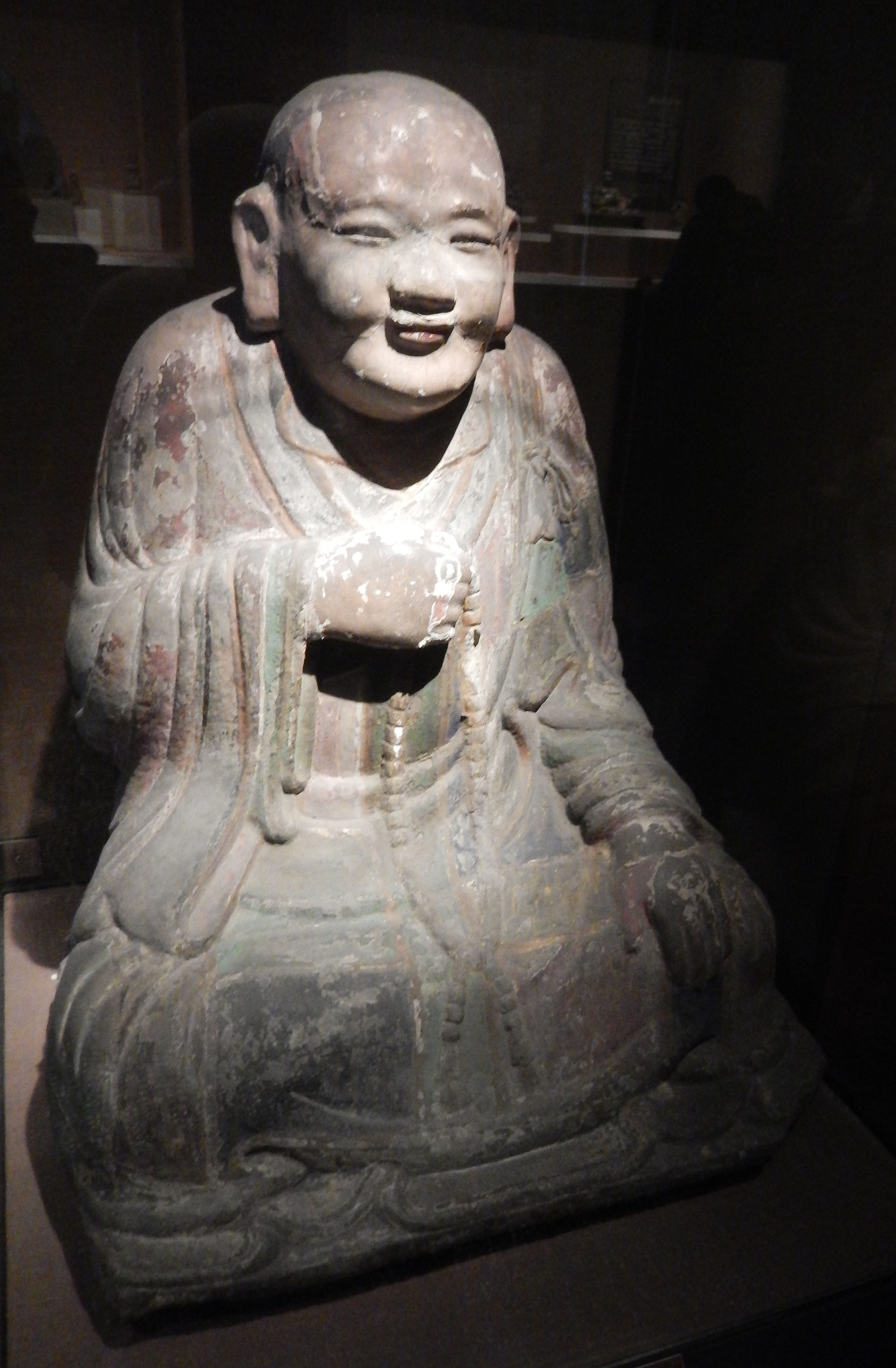 Stone statue of the eminent Chan monk Haiyun 海雲 (1203-1257), found in the underground hall of the Haiyun Pagoda of Qingshou Temple 慶壽寺 in Beijing when it was demolished in 1954. Mongol-Yuan dynasty (1206–1368). Held at the Capital Museum, Beijing.